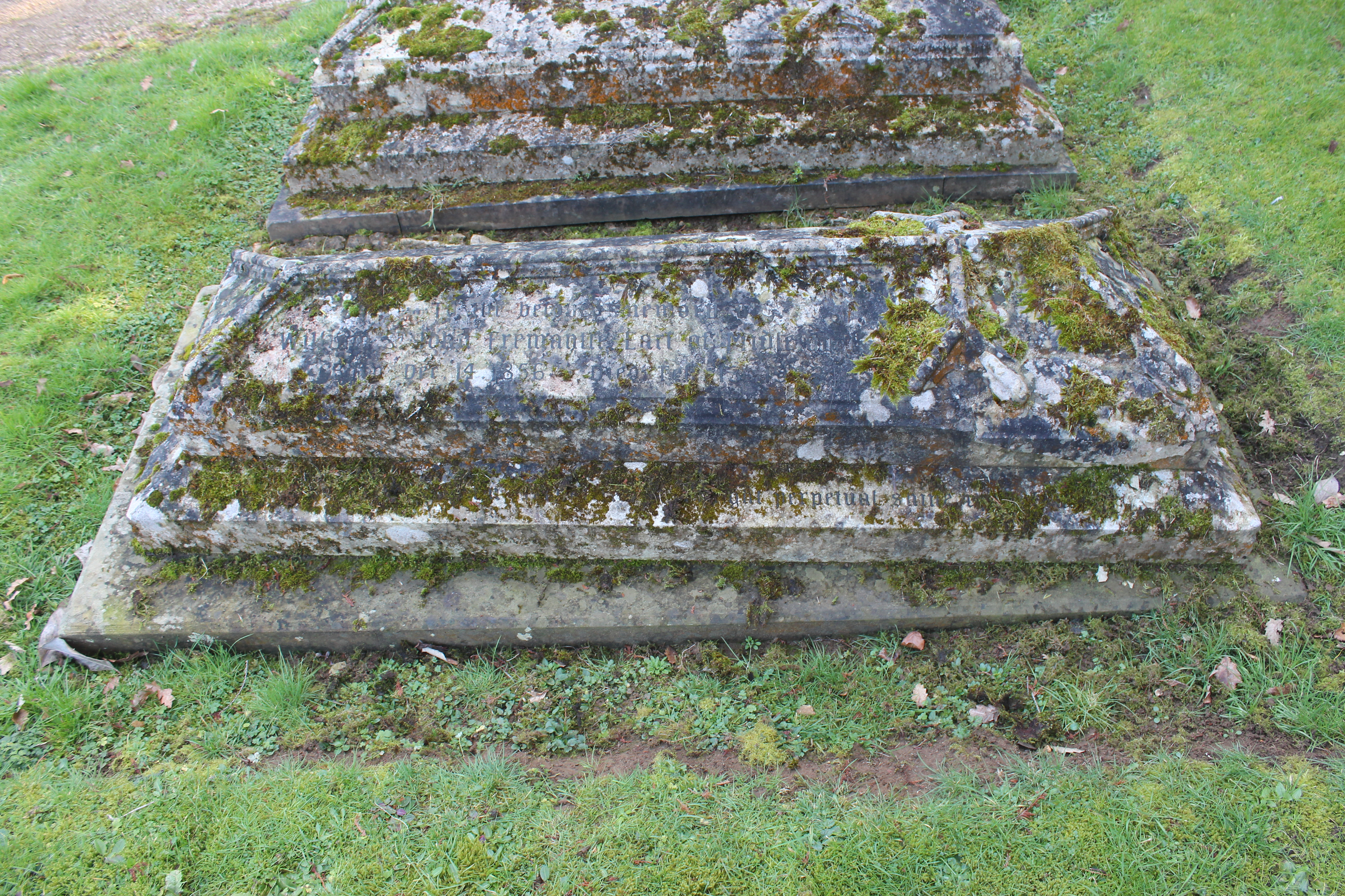 Grave of St John Brodrick, 1st Earl of Midleton